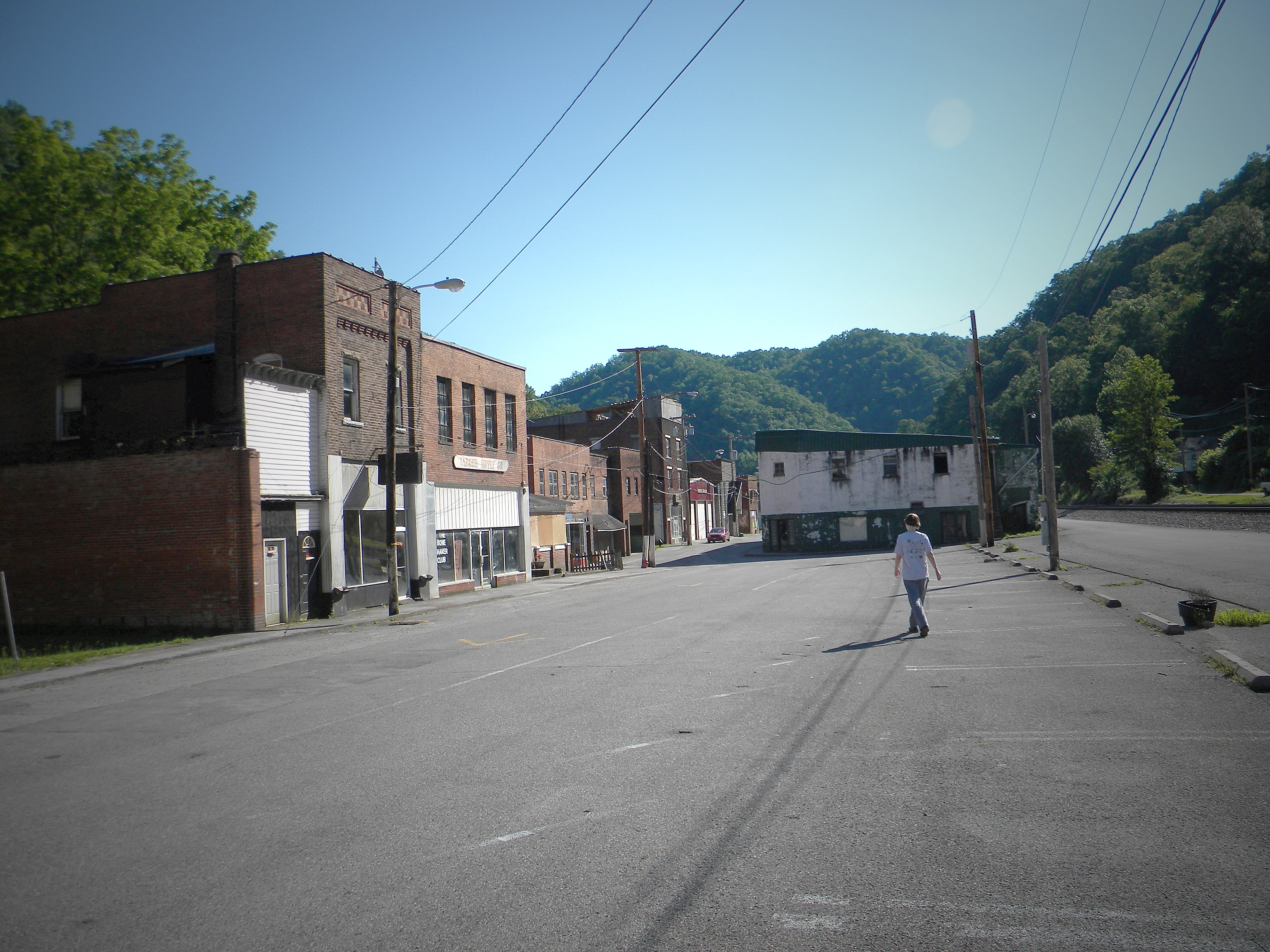 Iaeger West Virginia Street Scene